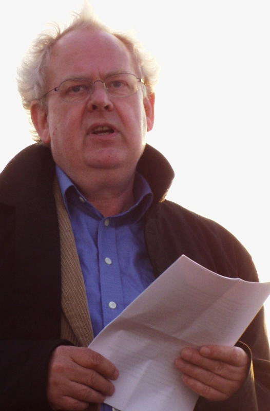 The Danish writer Jens Smærup Sørensen making a speech in his hometown Staun on midsummer's eve 2006